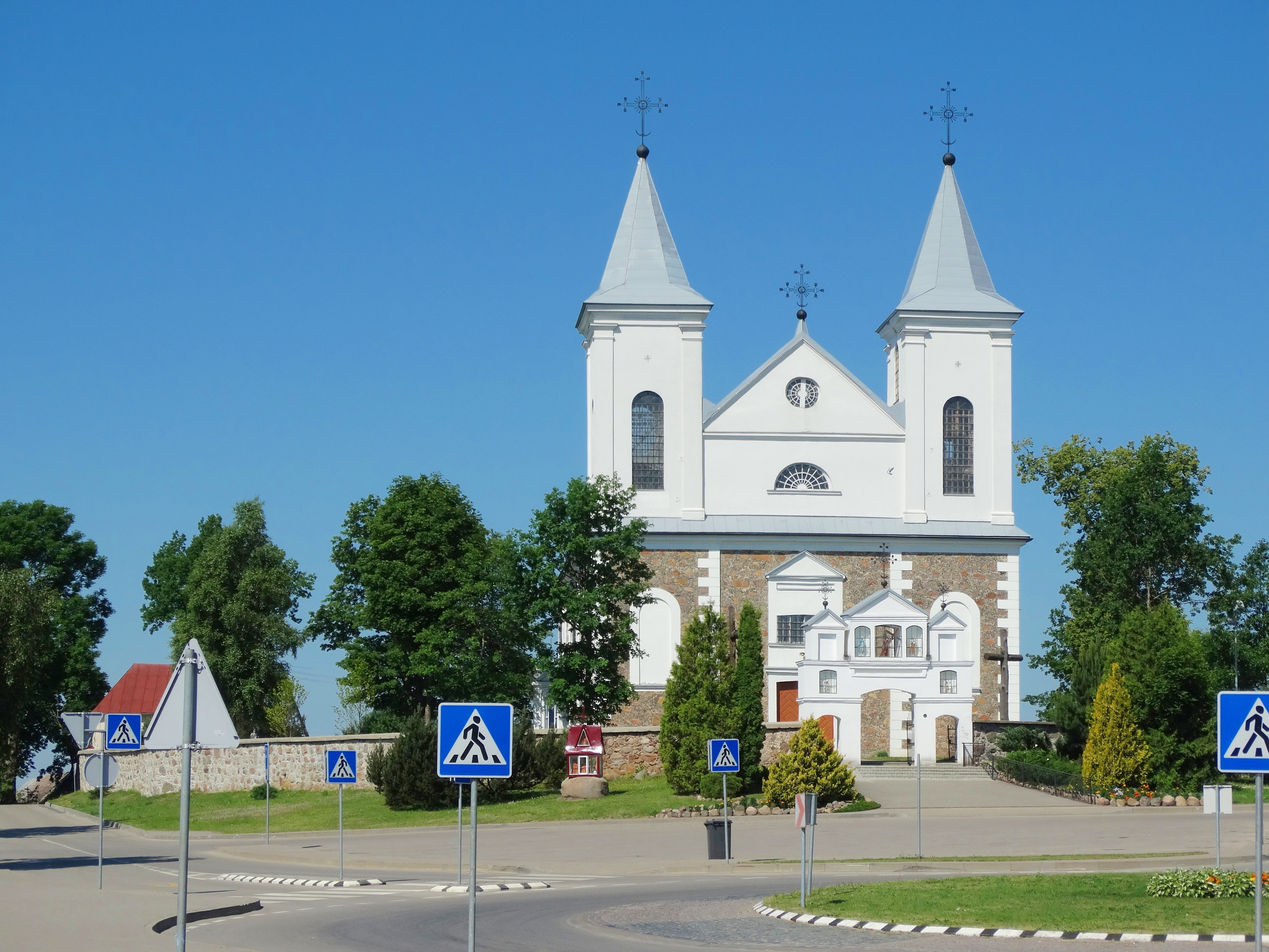 Church of the Discovery of the Holy Cross in Laukuva, Šilalė District, Lithuania